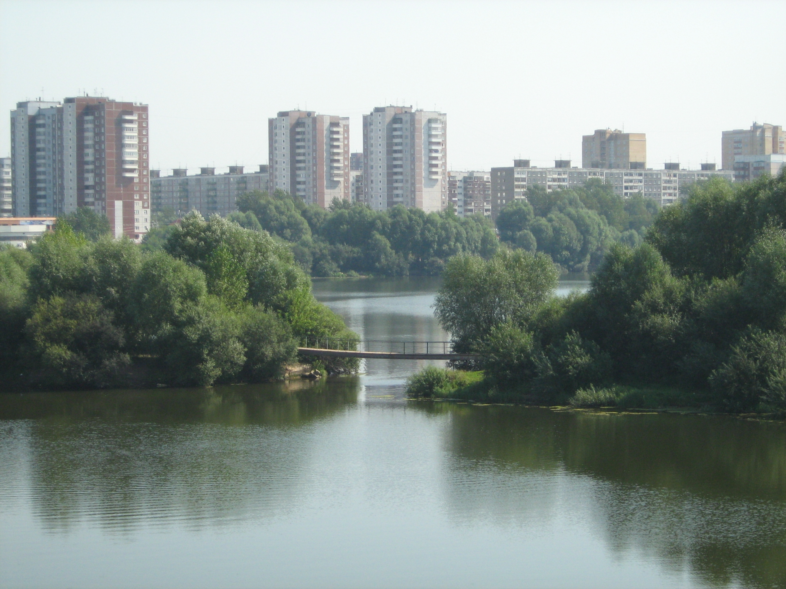 Perm. A pedestrian bridge over Mulyanka River with Parkovy microdistrict on background. View from the new bridge at Stroiteley Street.